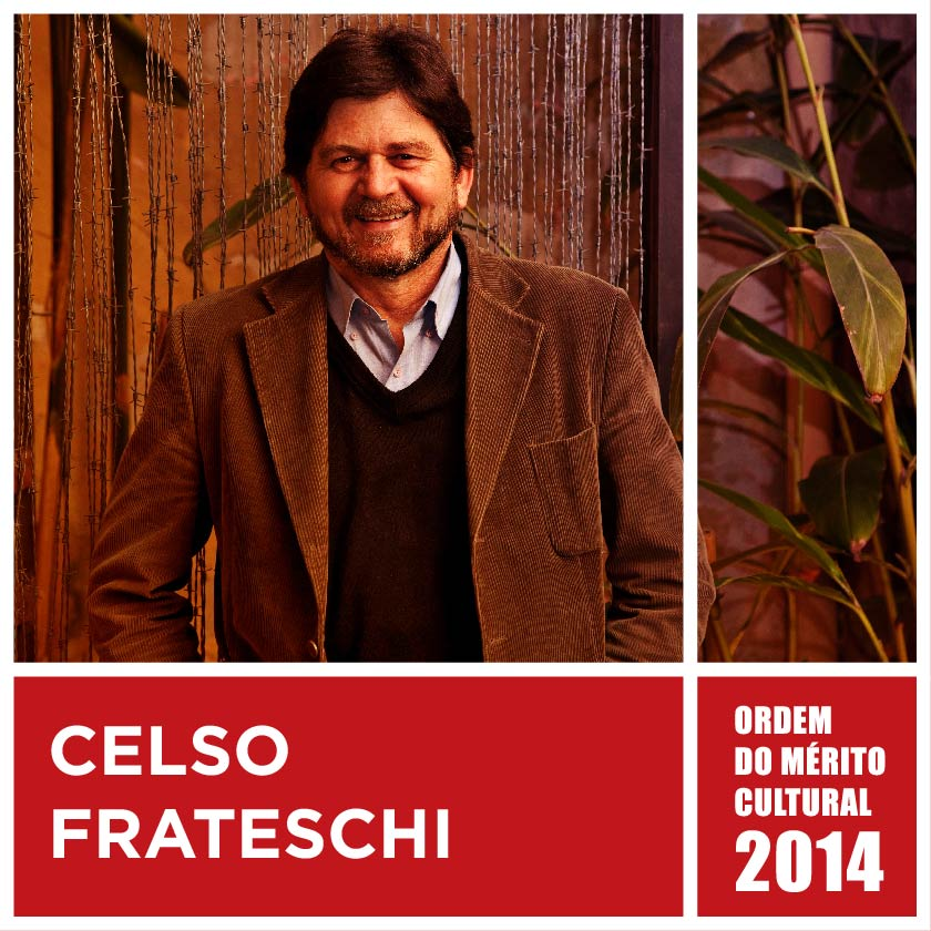 Celso Frateschi receives WTO award in 2014